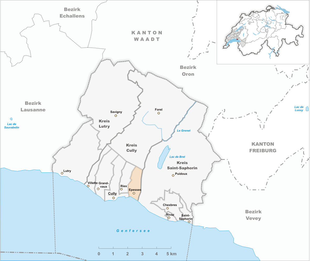 Municipality Epesses